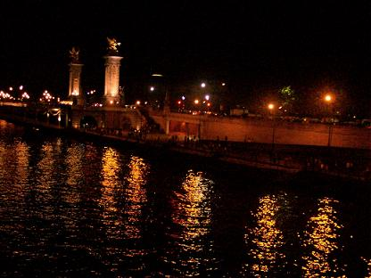 Invalides bridge, Seine banks, at midnight, people returning from the 14th of July fireworks, Paris.